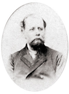 Theodor Petrina (1842-1928, Internist und Univ.Prof. in Prag